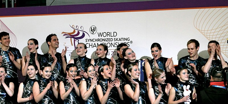 Atlantides 2011, world championship, Helsinki, Finland